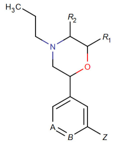 Nociceptive morpholine dopamine agonist supra-structure